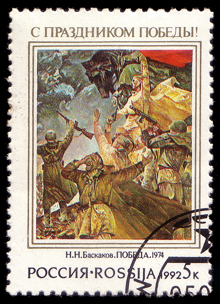 Postage stamp of Russia, Congratulations on Victory day!, 5 kopecks, 1992